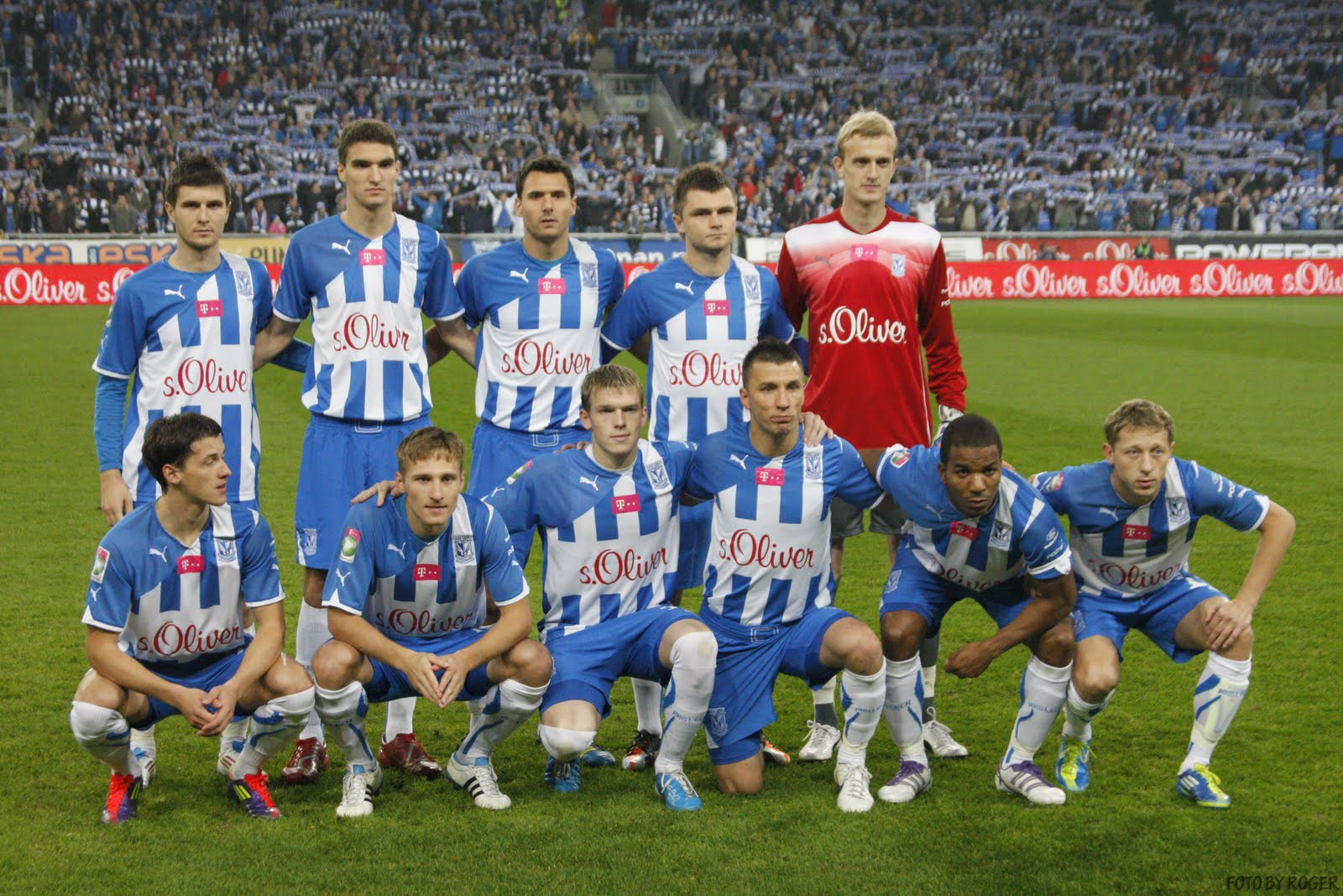 KKS Lech Poznań before polish ekstraliga match against Legia Warszawa